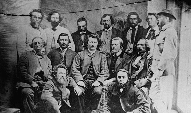 Councillors of the Provisional Government of the Métis Nation. Front row, L-R: Robert O'Lone, Paul Proulx. Centre row, L-R: Pierre Poitras, John Bruce, Louis Riel, John O'Donoghue, François Dauphinais. Back row, L-R: Bonnet Tromage, Pierre de Lorme, Thomas Bunn, Xavier Page, Baptiste Beauchemin, Baptiste Tournond, Joseph (Thomas?) Spence